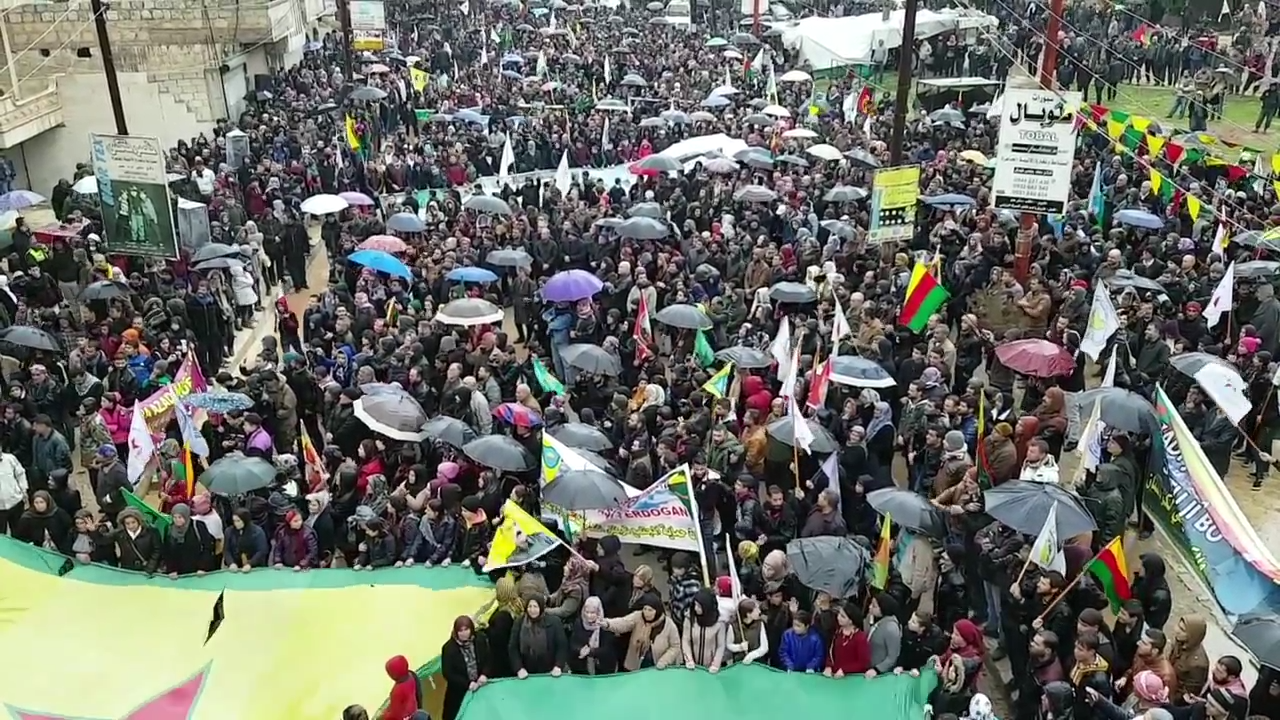 A demonstration in the city of Afrin, Syria in support of the People's Protection Units (YPG) and the Women's Protection Units (YPJ) against the Turkish military operation against the Afrin Region.